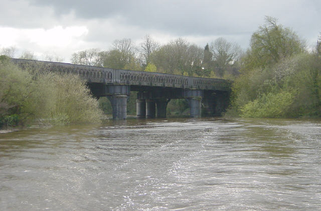 Railway Bridge, River Dee, Chester, UK. The railway bridge across the tidal River Dee west of Chester city centre, between the Roodee and Curzon Park. The level of the river can vary significantly at this point. This photograph was taken at high tide.